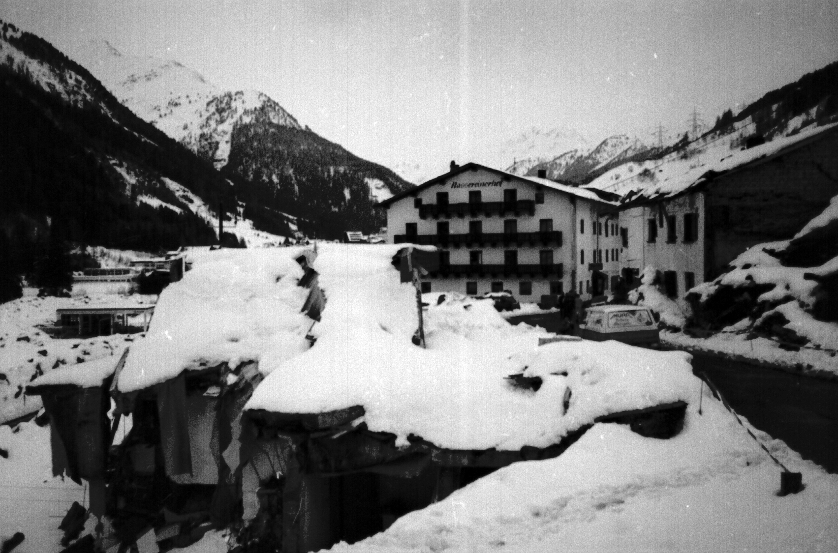 Houses in St. Anton damaged by the 1988 avalanche